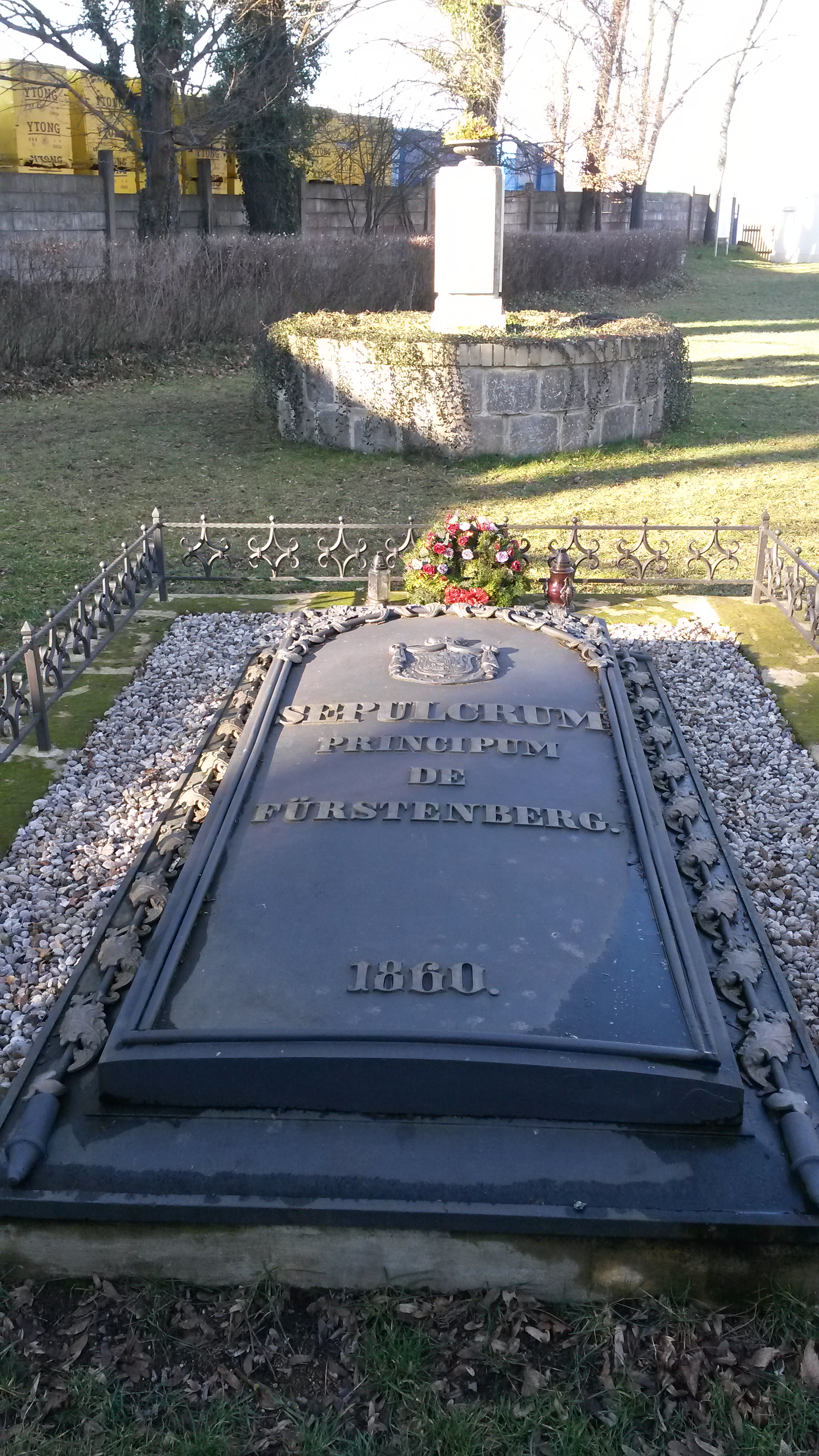 Fürstenberg Tomb in Nižbor - grounds